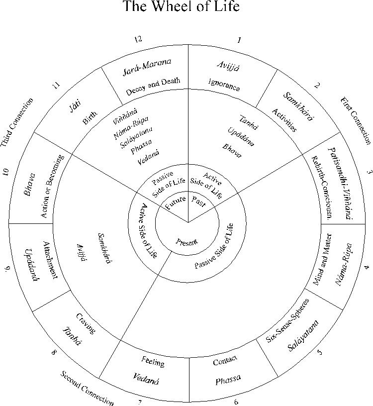 Wheel of life as introduced by Ven. Rerukane Chandawimala Thero, originated in Pokunuwita, Sri Lanka.